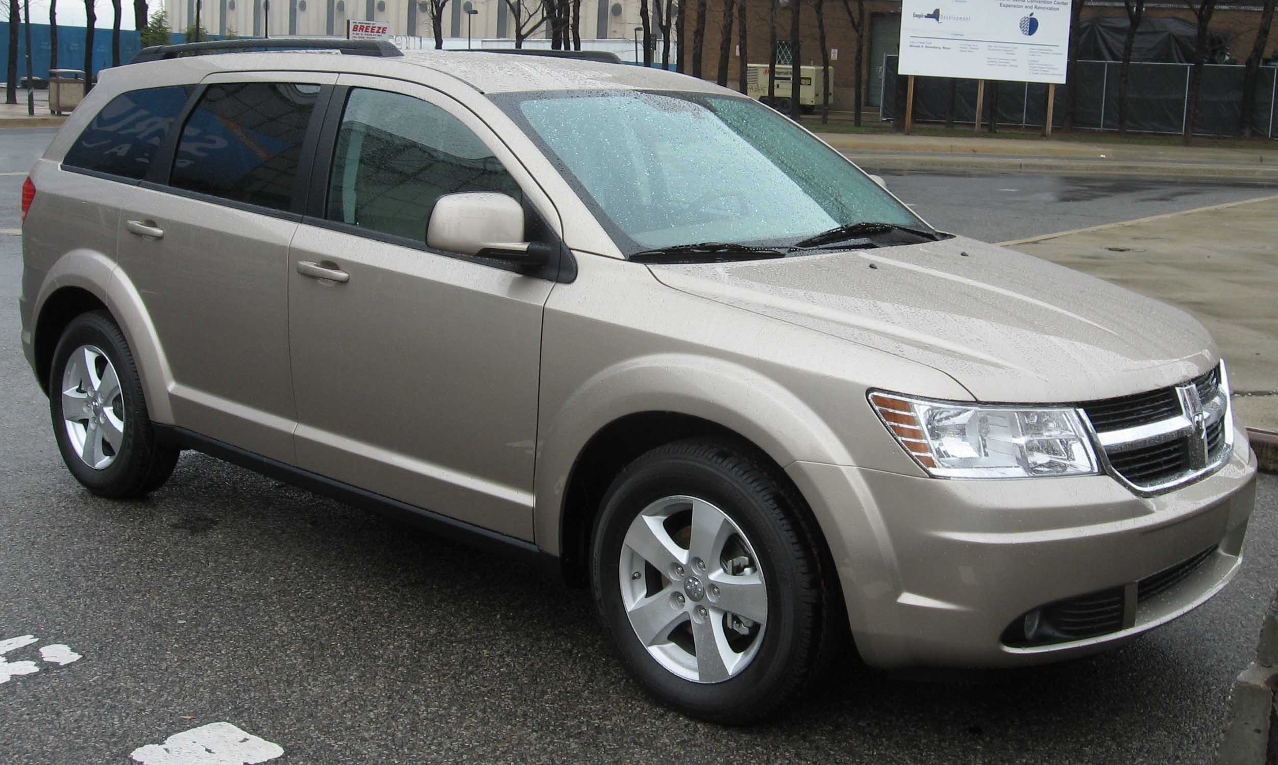 2009 Dodge Journey photographed in New York City, USA.